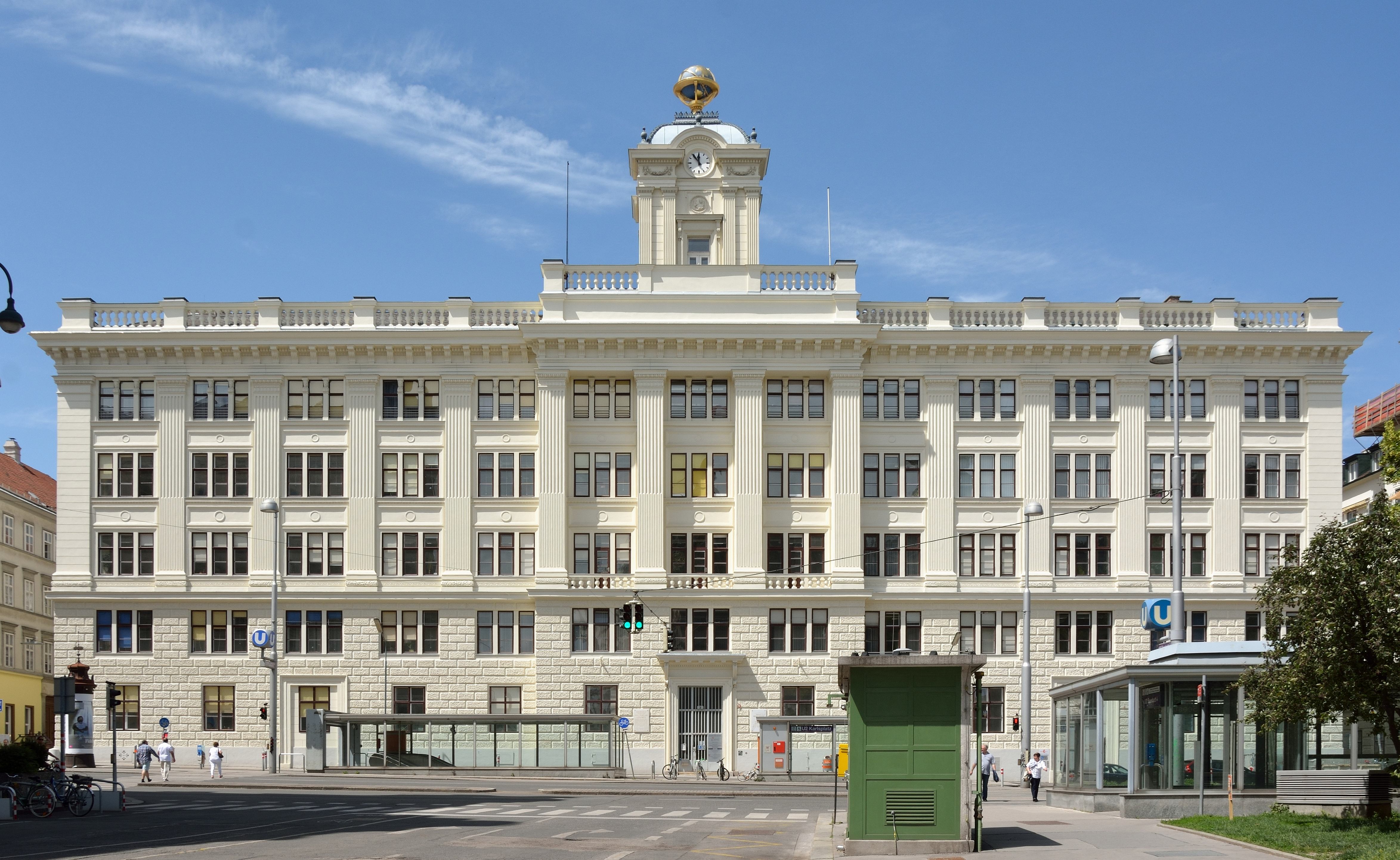 Former Institute of Military Geography, later called Bundesamt für Eich- und Vermessungswesen, 8th district of Vienna